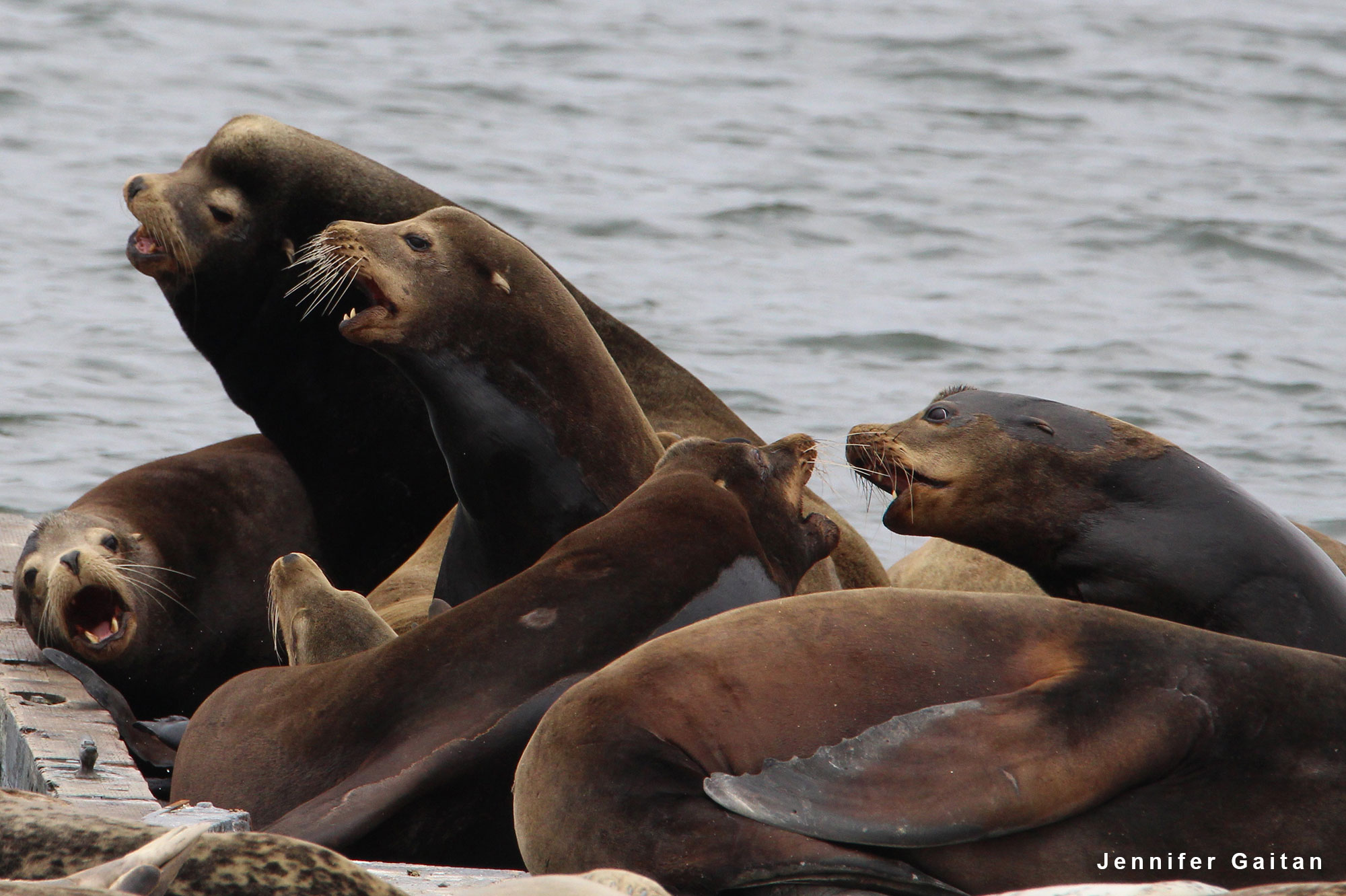 Sea lions roar in unison on a pier in Crescent City Harbor, California. Credit: Jennifer Gaitan View all winning entries for the 2015 World Ocean Day photo contest on the National Ocean Service website.